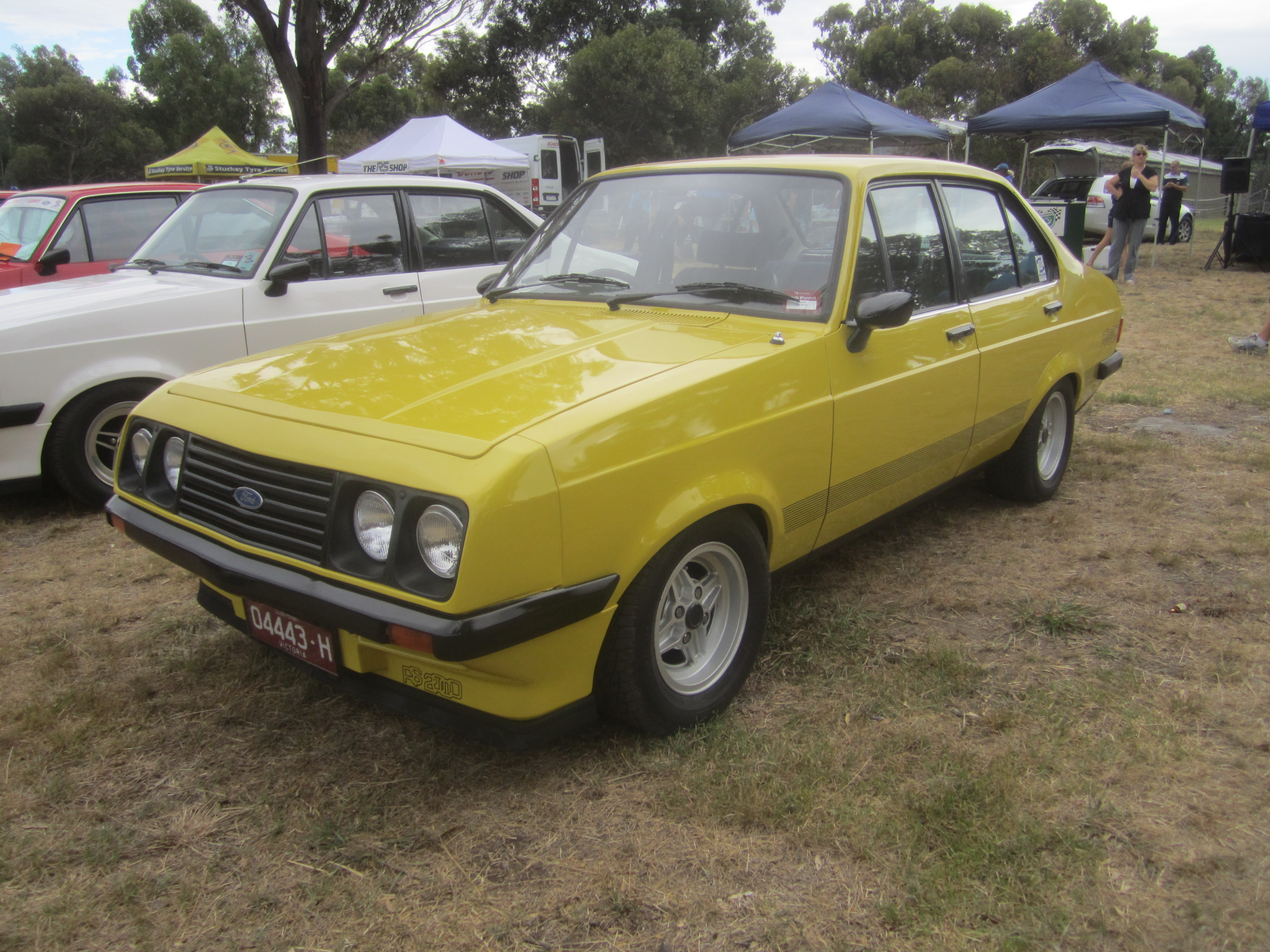 The Mk II Escort was introduced in 1974 and replaced by the Laser in 1980, it was similar mechanically to the Mk I but got a squarer body and new dash. Built in England and also assembled in Australia and NZ Available in 2 or 4 door, estate (only in UK and NZ) and van Models were the L, GL or luxury Ghia, (1.1, 1.3 or 1.6) the performance models were the Sport (1.6 Kent), RS Mexico (1.6 Pinto), RS1800 (Cosworth head and BDA) and the RS2000 (2.0 Pinto and polyurethane slant nose) In the UK the RS2000 was only available as a 2 door, only in Australia was the 4 door available.